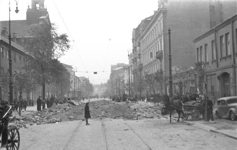 Warsaw during World War II